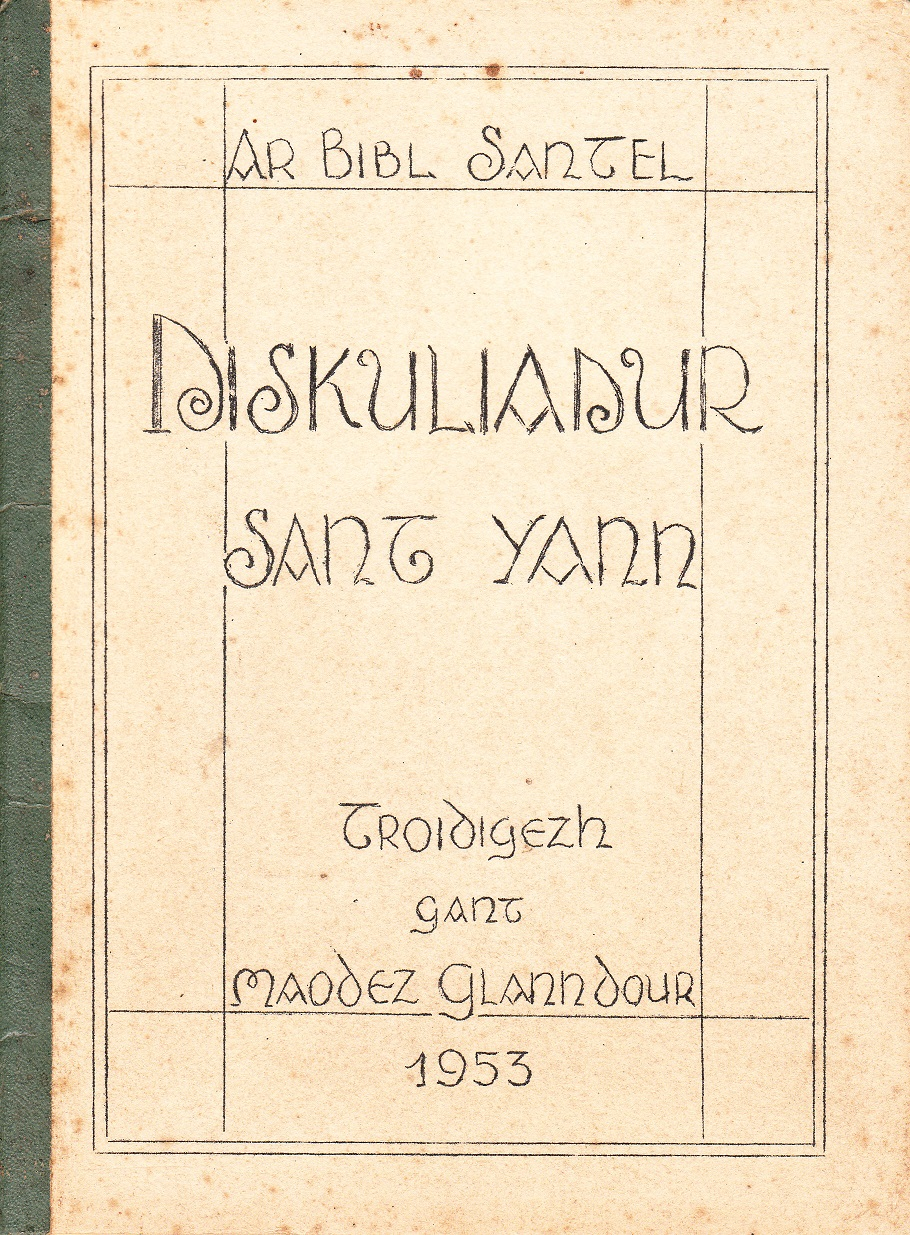 Cover of "Diskuliadur sant Yann" ("St John's Revelation") translated into Breton by Maodez Glanndour, duplicated stencil, 1953